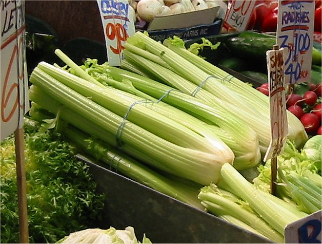 Various fruits and vegetables for sale at Pike Place Market, Seattle